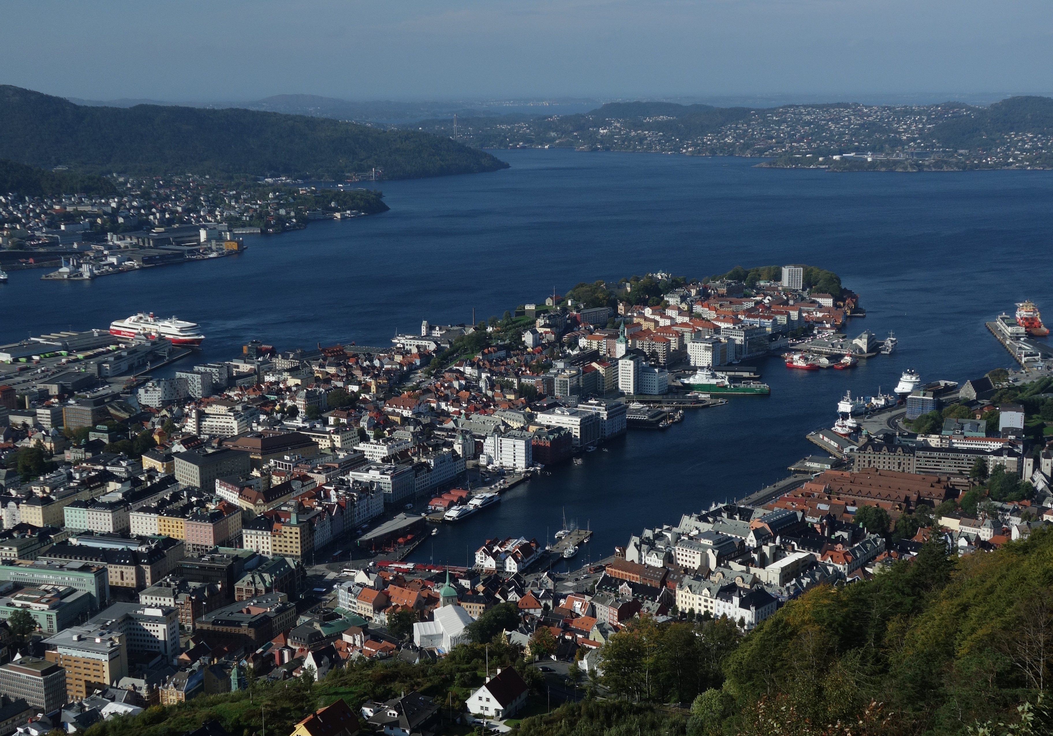 The neighborhood Nordnes of Bergen, Norway, as seen from the hill Fløyen.